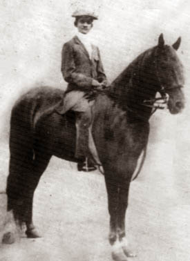 Henry Pedris (1888-1915), national hero of Sri Lanka